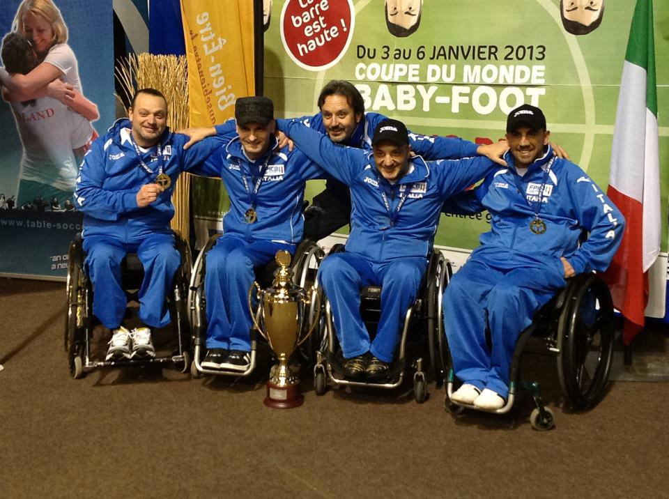 Italian Team of Paralympic Foosball World Champion on 2013 Alessandro Nigra Gattinotta, Francesco Bonanno, Roberto Falchero (coach), Fabio Cassanelli, Roberto Silvestro